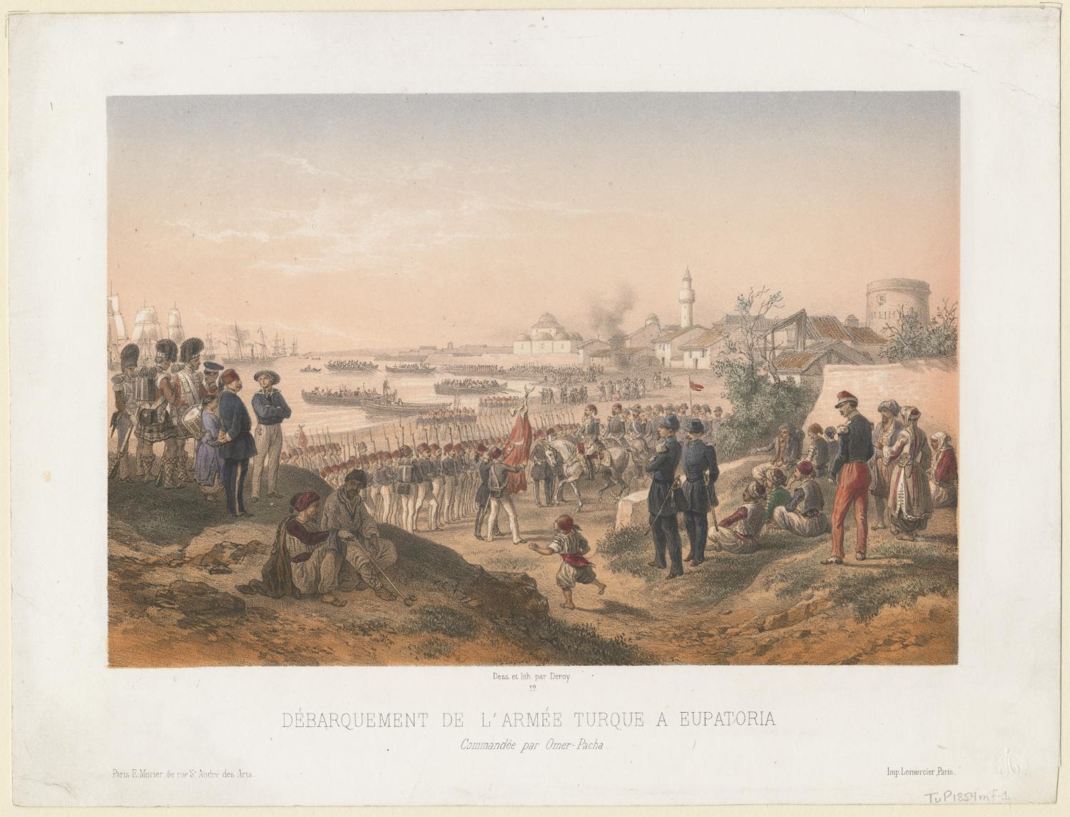 Ottoman Empire in the Crimean War